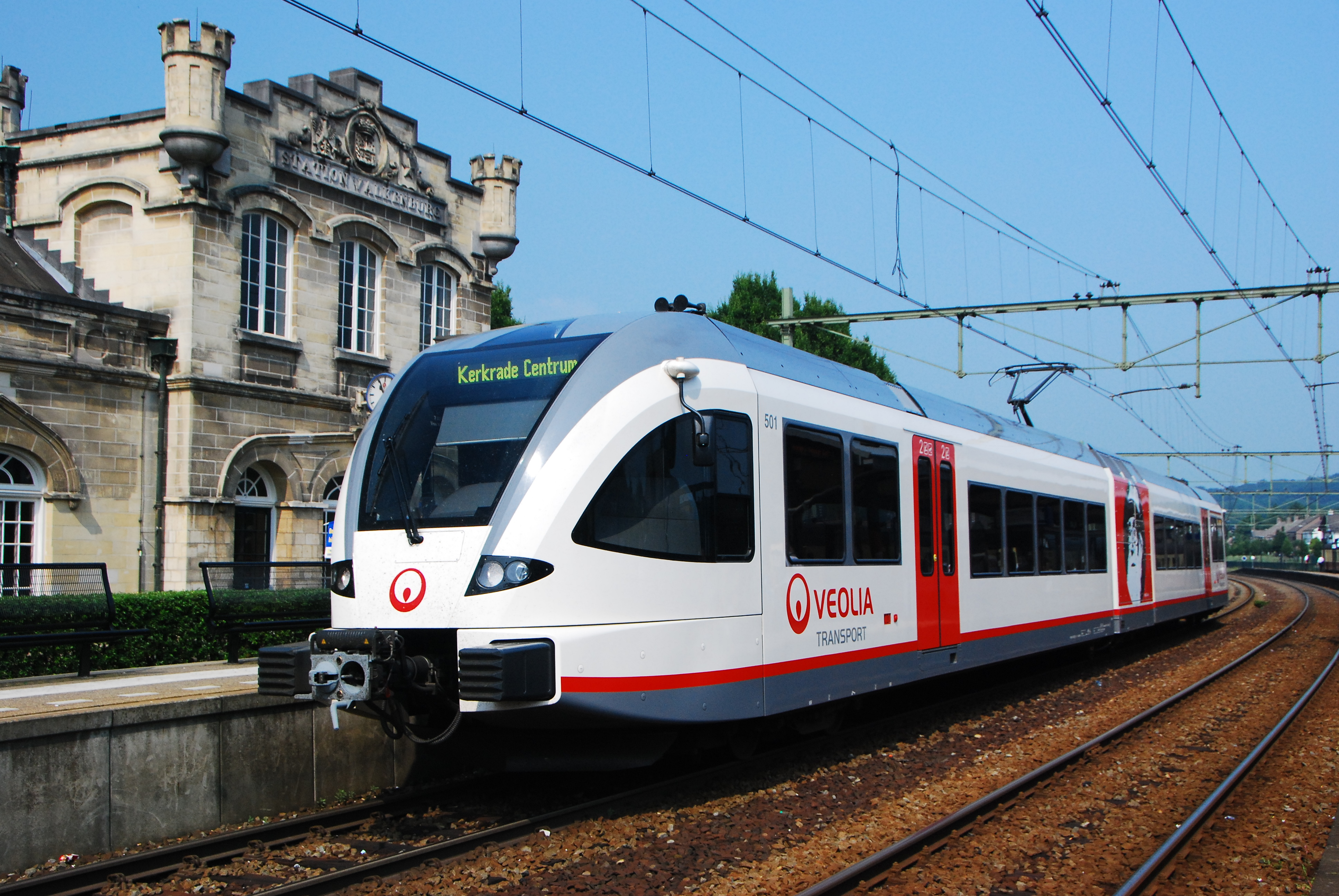 Veolia GTW at Valkenburg (NL)